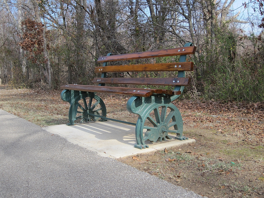 The Old Wagon Trail at Shelton Street at Sugar Lane in Collierville, Tennessee